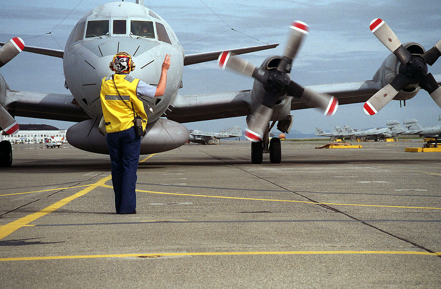 960515-N-3225X-001 Naval Air Station Whidbey Island, WA (May 15, 1996) -- Aviation Electronic Technician 3rd Class Gunter signals the pilot to turn engine number two during flight line pre-flight checks, on board Naval Air Station Whidbey Island, WA U.S. Navy Photo by Photographer’s Mate 1st class Xanos, S.J. (Released)